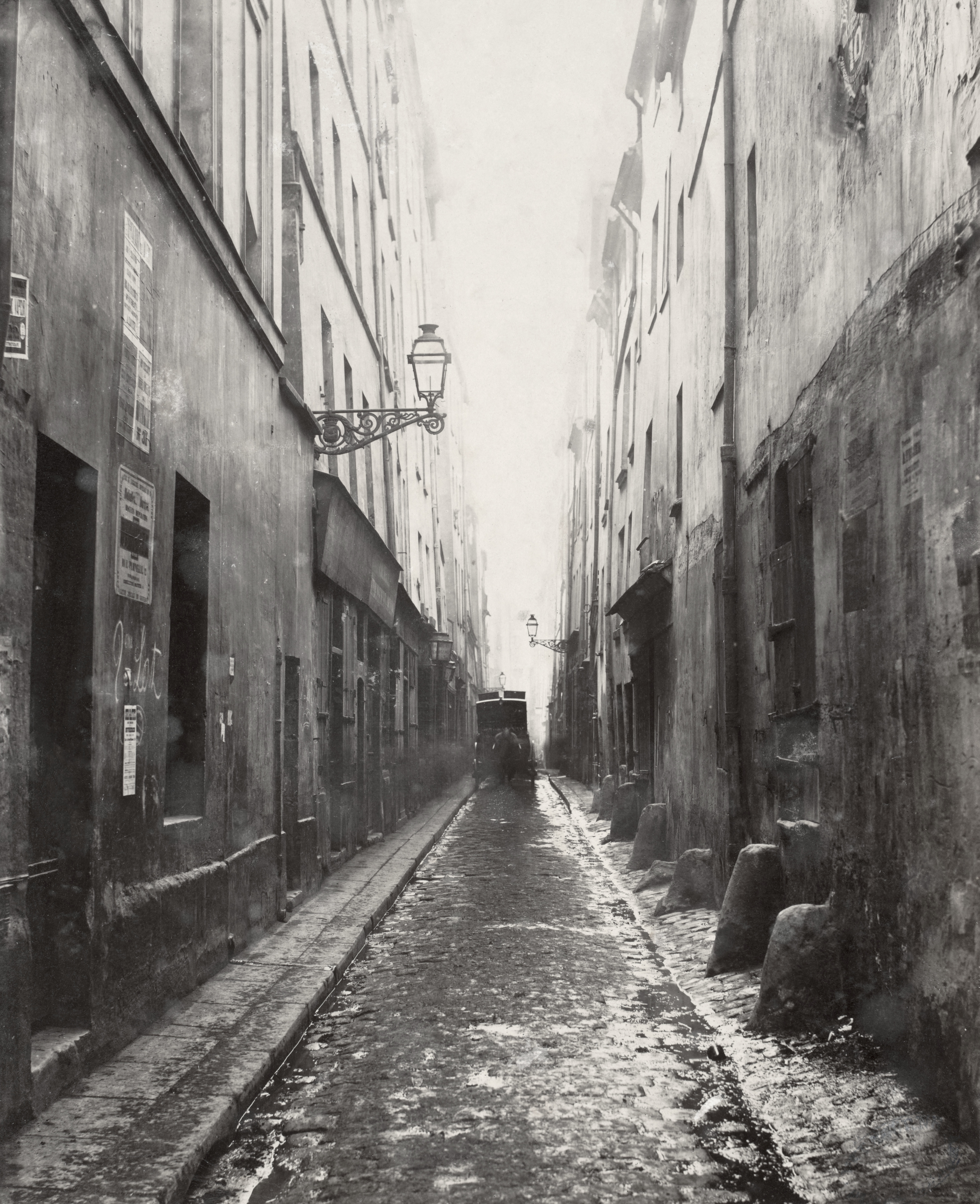 Cobbled street with buildings opening onto narrow paths, horse and carriage in street.